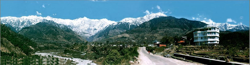 View of Dhauladhar Mountains from Palampur